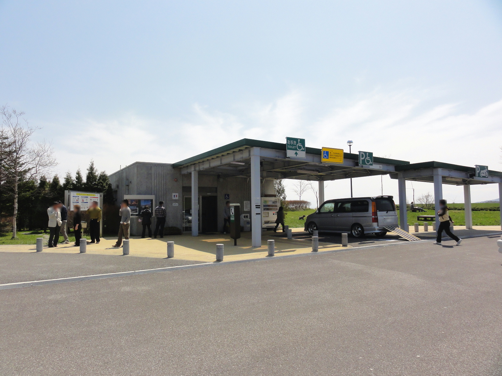 Hokkaidō Expressway Shizukari Parking Area for Hakodate